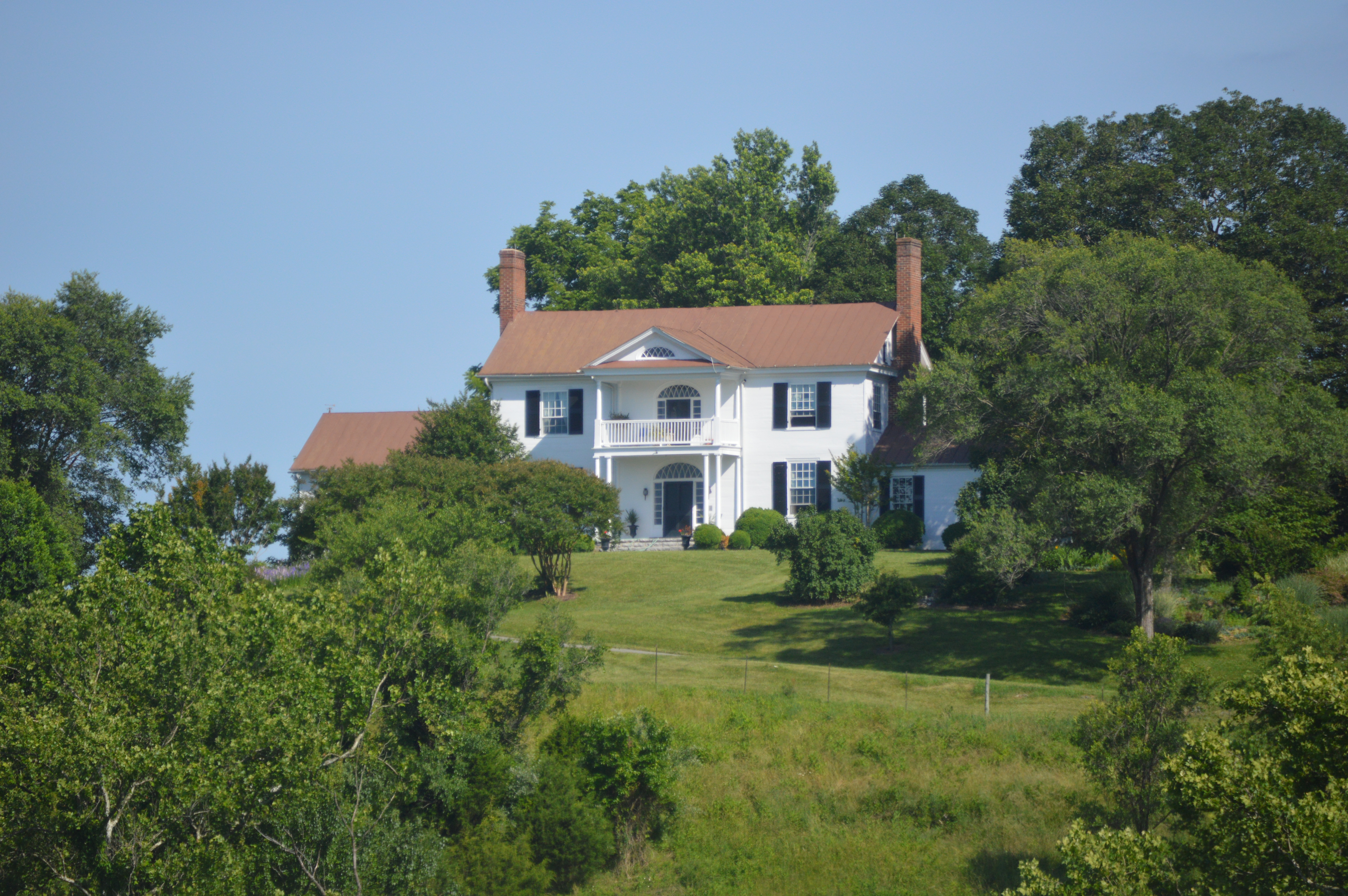 Front of Prospect Hill, located off Church Street just south of Fincastle in Botetourt County, Virginia, United States. Built in 1838, it is listed on the National Register of Historic Places.